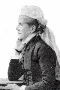 Anne Ross Cundell Cousin Born: Ap­ril 27, 1824, Kings­ton-up­on-Hull, York­shire, Eng­land. Died: De­cem­ber 6, 1906, Ed­in­burgh, Scot­land.